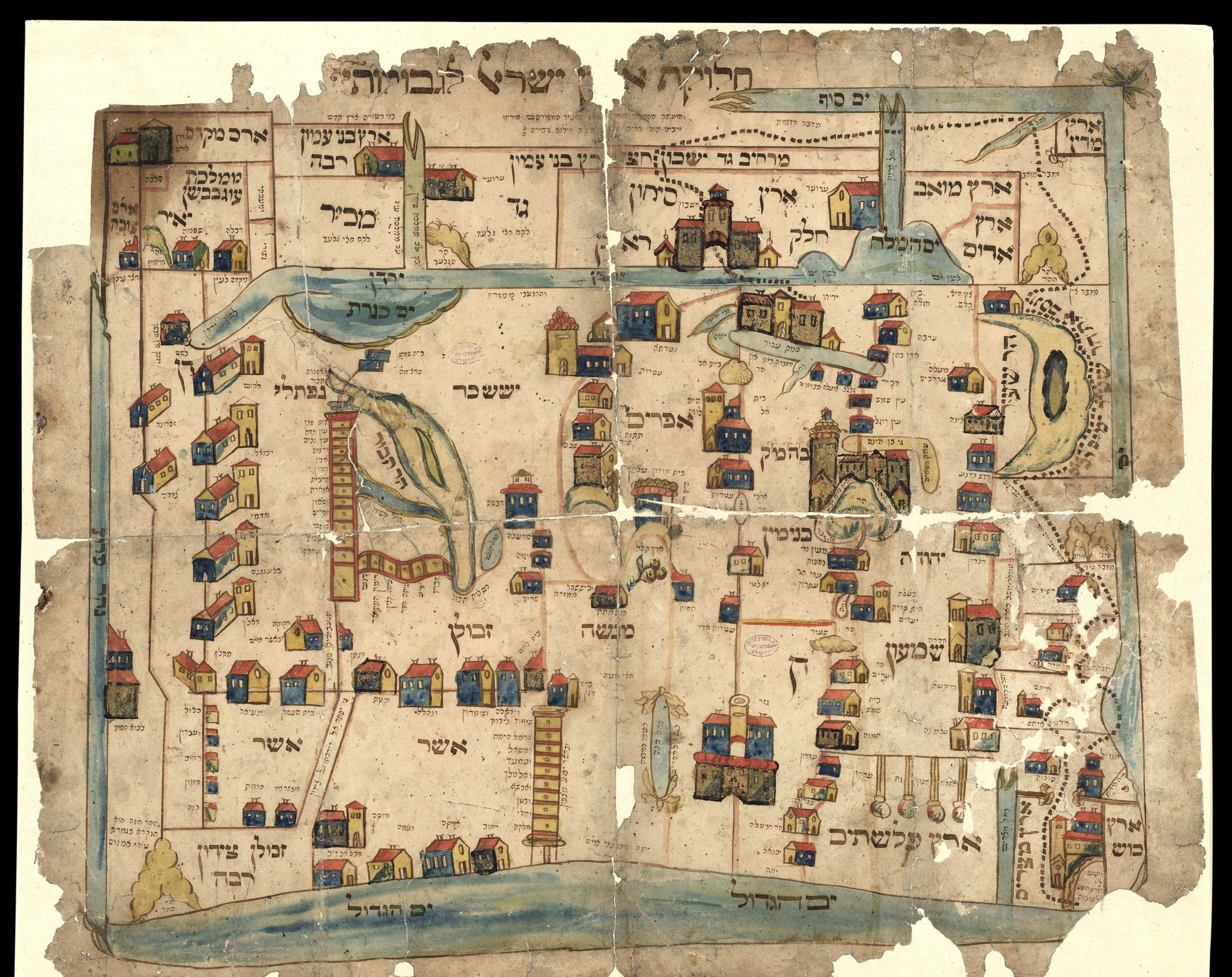 Vilna Gaon Map of 1802